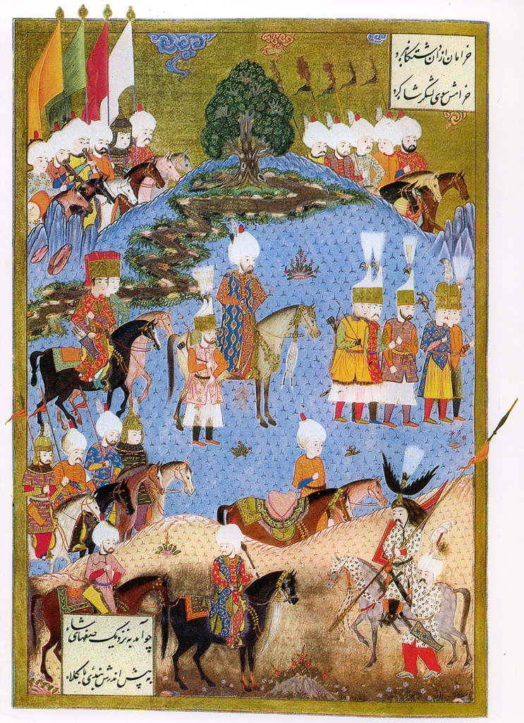 Miniature with poems in Persian language written at two corners: Suleiman the magnificent marching with army in Nakhichevan, summer 1554